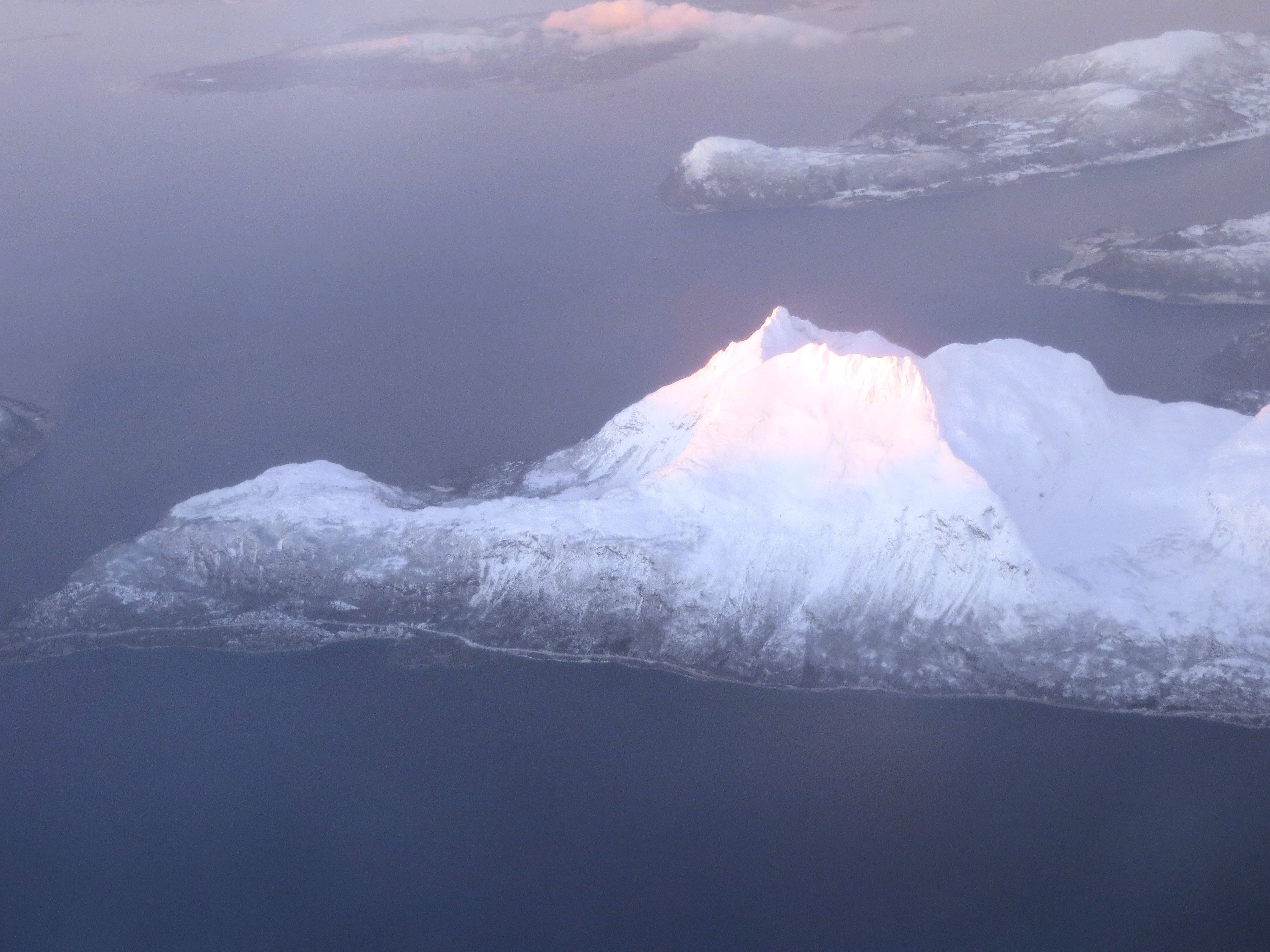 Aerial view towards west, over the municipality of Salangen - Troms County, Norway